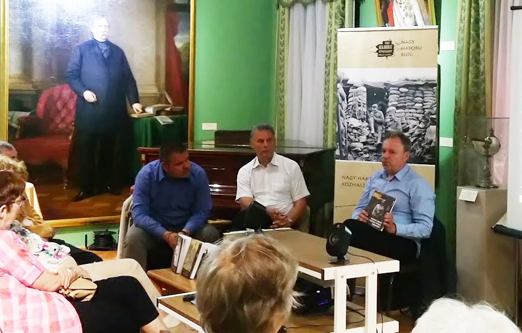 Lecture on Tizes Honved Days, Herman Ottó Museum, 2018